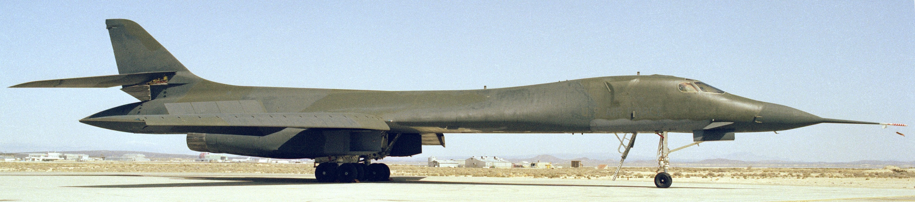 A right side ground view of a B-1A aircraft.